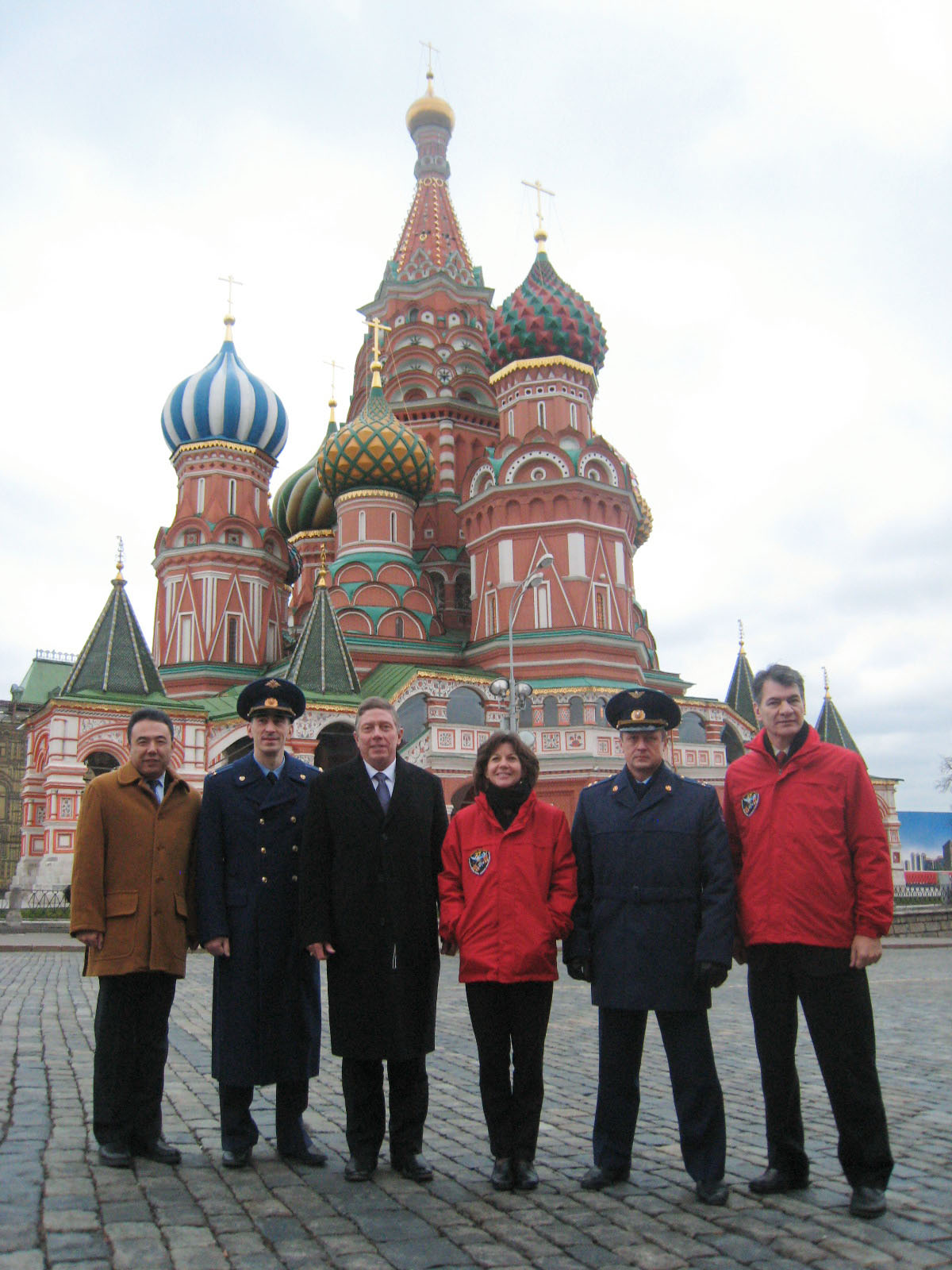 In front of St. Basil's Cathedral at Red Square in Moscow Nov. 26, 2010, Expedition 26 prime and backup crew members posed for pictures as part of ceremonial activities leading to the launch of the Expedition 26 crew in the Soyuz TMA-20 spacecraft from the Baikonur Cosmodrome in Kazakhstan Dec. 16 (Kazakhstan time). Pictured are (from the left) JAXA astronaut Satoshi Furukawa, backup flight engineer; RKA cosmonaut Anatoly Ivanishin, backup Soyuz commander; NASA's Mike Fossum, backup flight engineer; NASA's Catherine (Cady) Coleman, Expedition 26 prime flight engineer; RKA cosmonaut Dmitry Kondratyev, prime Soyuz commander; and European Space Agency astronaut Paolo Nespoli, prime flight engineer.